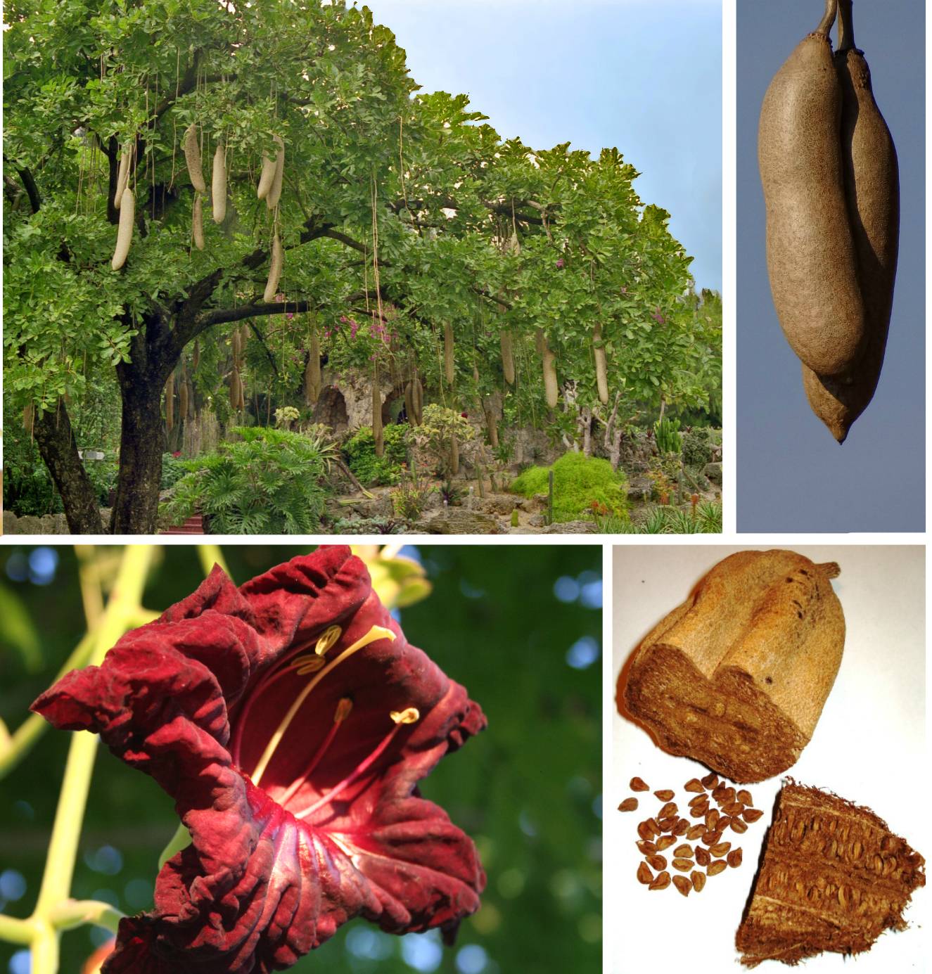 Kigelia africana poster, upper left: tree, upper right: fruit hanging from the tree, bottom left: flower, bottom right: fruit cut open and seeds.